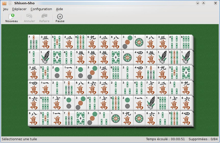 Screenshot of the french version of Kshisen